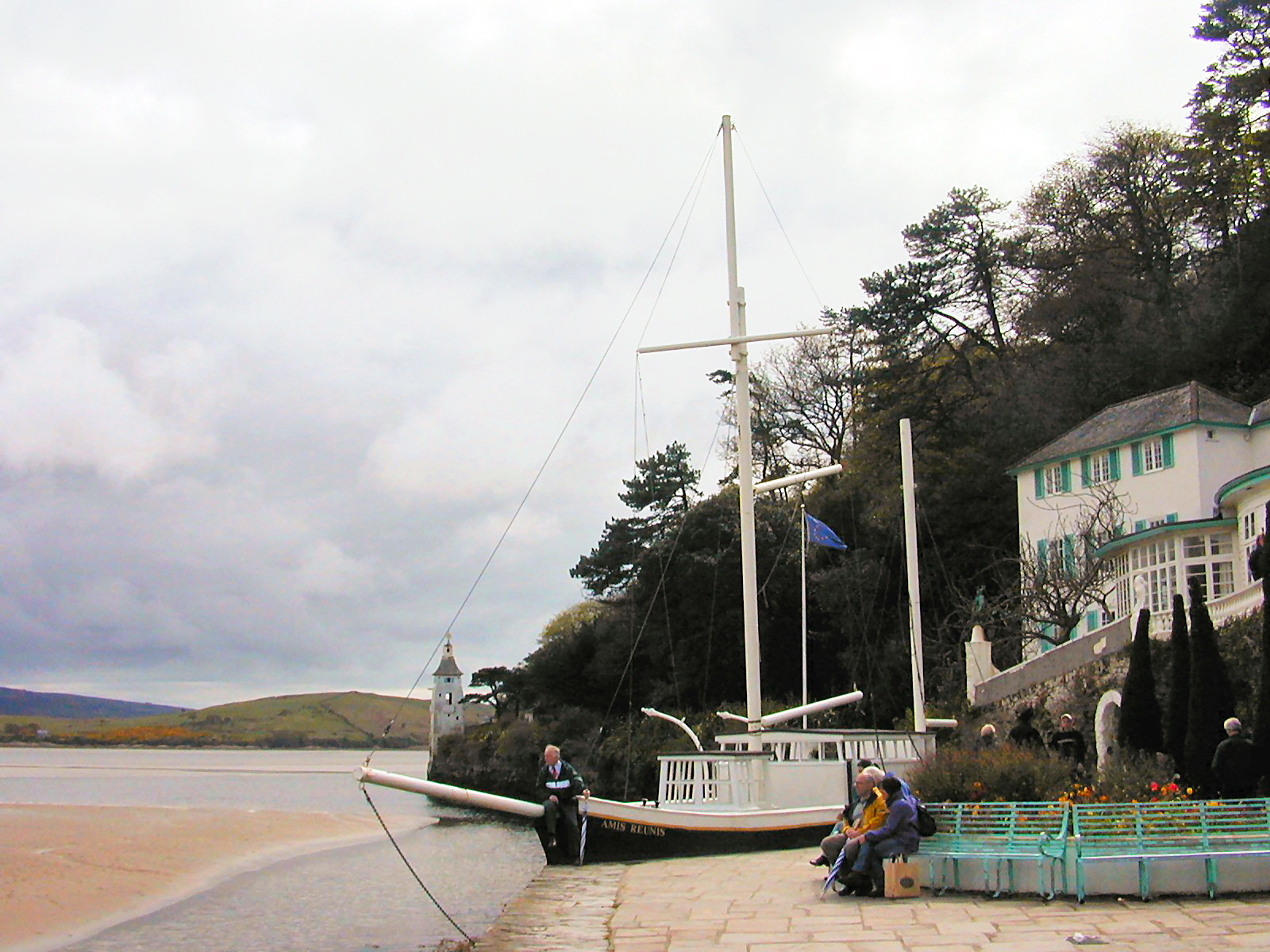 The Stone Ship at Portmeirion I attest that I am the copyright holder for this image and I release it for use under the Creative Commons 2.5 license, provided that proper attribution of my copyright is made. 2006-02-18 17:18 Tysto 1600×1200× (505125 bytes) retouched 2005-08-24 23:47 Atlant 1600×1200× (366033 bytes) The Stone Ship at Portmeirion I attest that I am the copyright holder of this image and I release it for any non-commercial use. Someone else can tell me which license this represents. :-) ~~~~